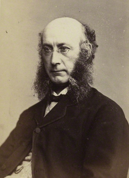 by Henry Joseph Whitlock, albumen carte-de-visite, 1860s